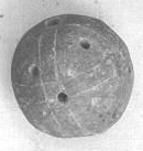 Aztec; Pottery Rattle; Idiophone-Shaken-rattle